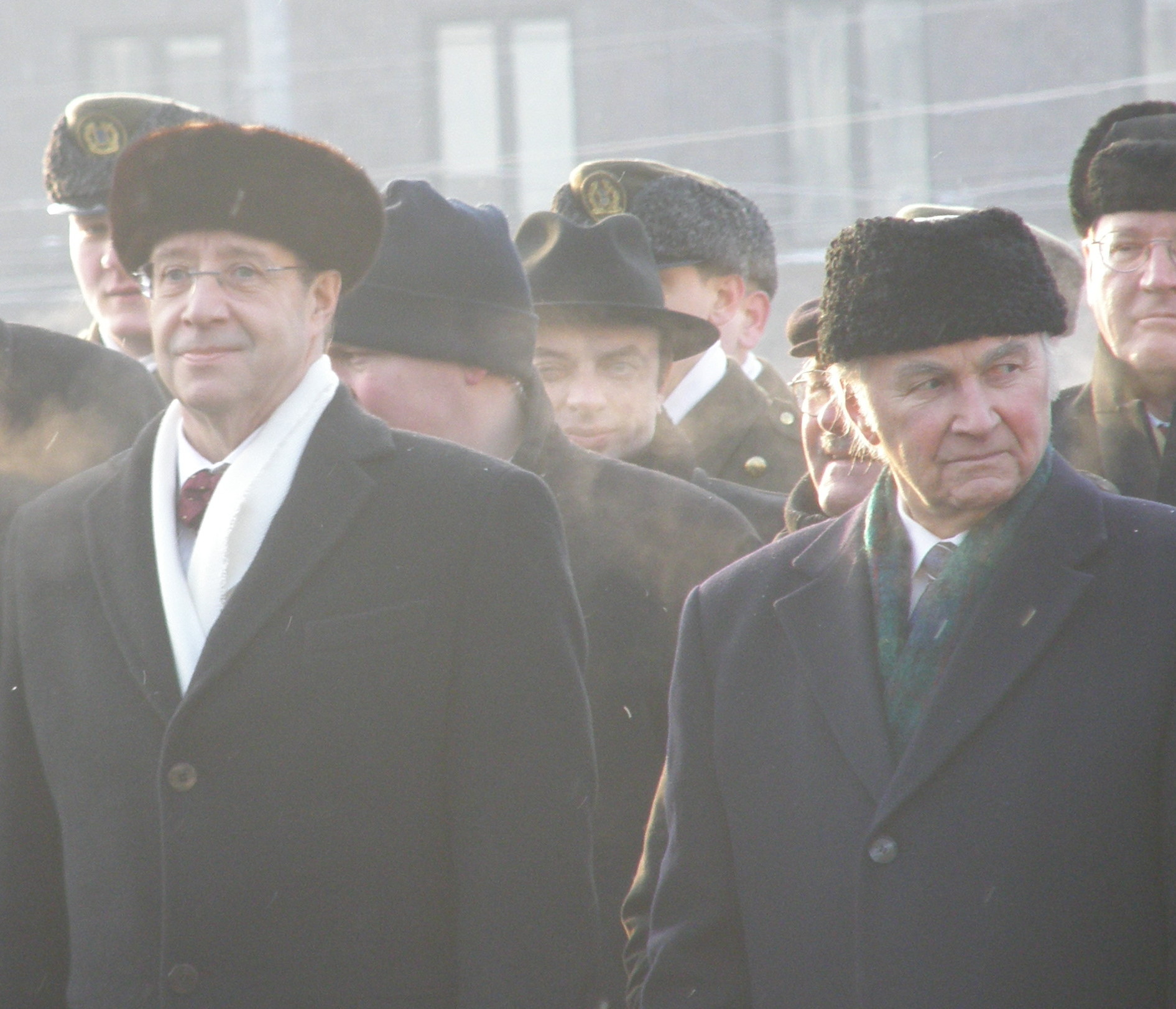 Presidents T.H. Ilves and A. Rüütel